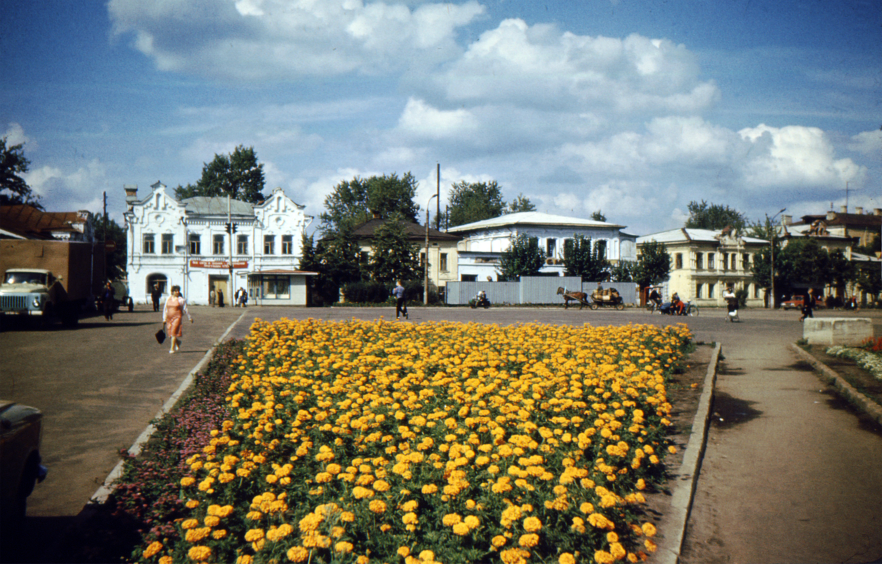 Bogorodsk, Nizhny Novgorod Oblast. Red Square in 1985